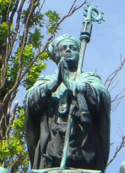 Statue of swedish archbishop Jakob Ulvsson. By sculptor Christian Eriksson b. 1858, d. 1935